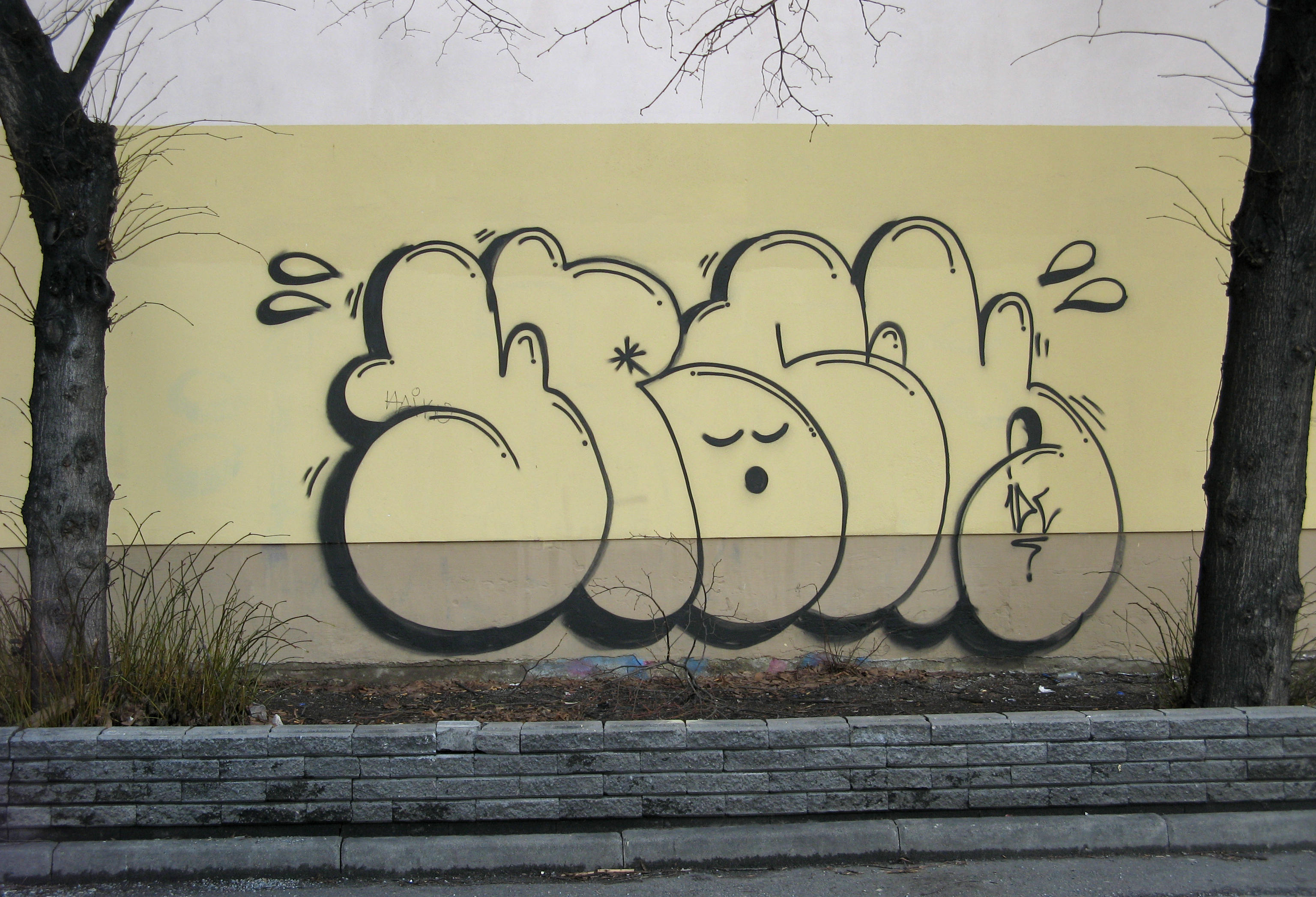 Throw-Up